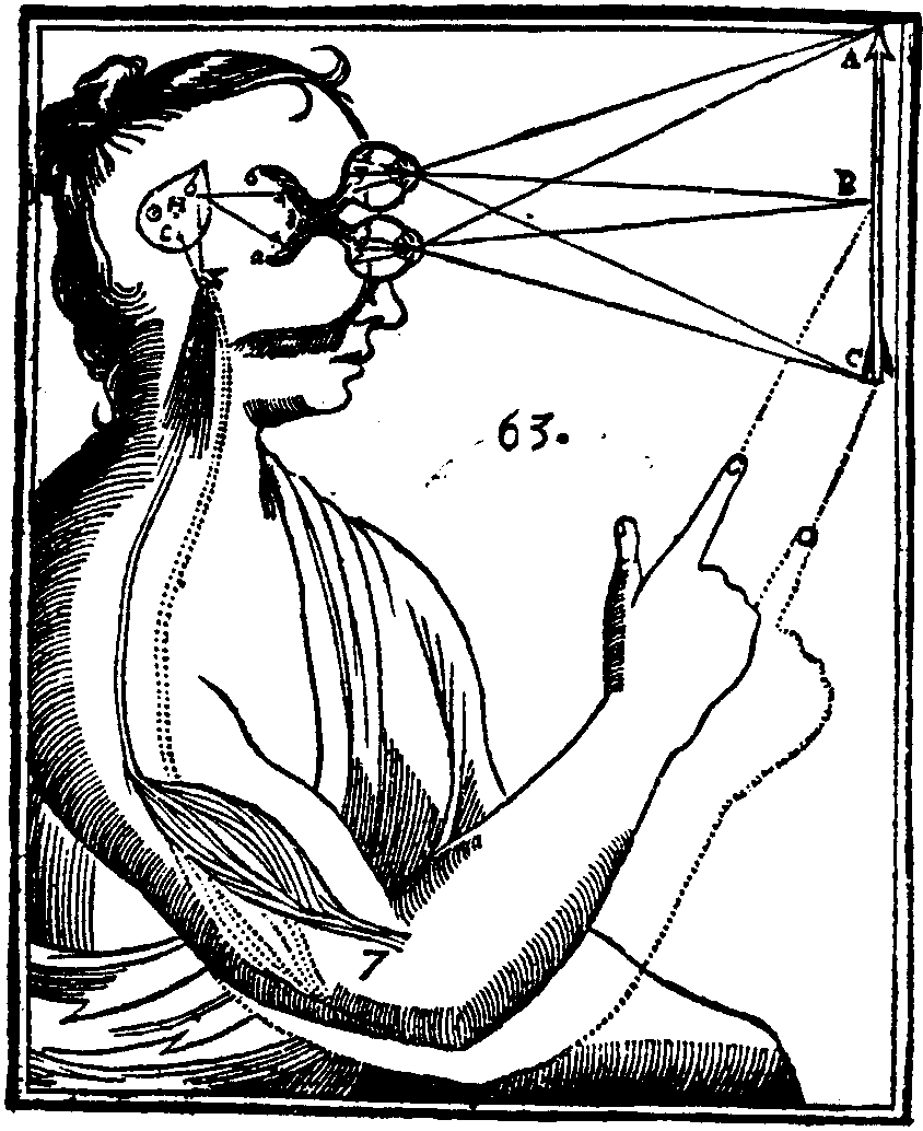 Diagram from one of René Descartes' works.